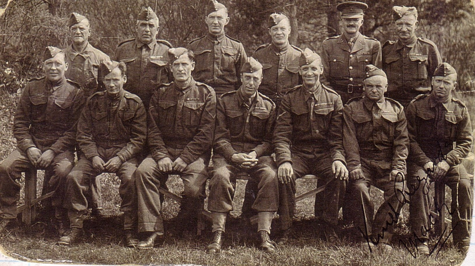 Taken sometime during WWII.